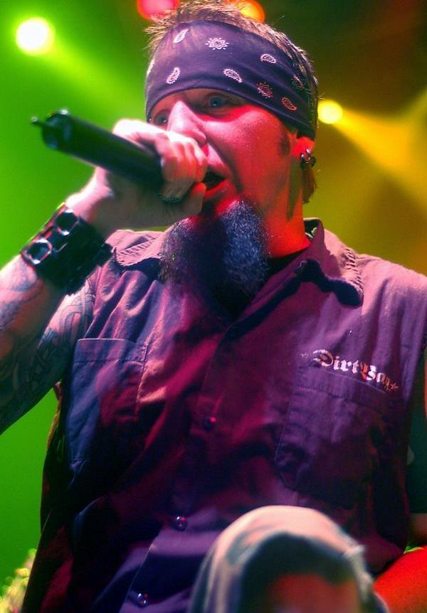 Chad Gray, lead vocalist for Mudvayne and Hellyeah, performing at the 9:30 Club in Washington, D.C.